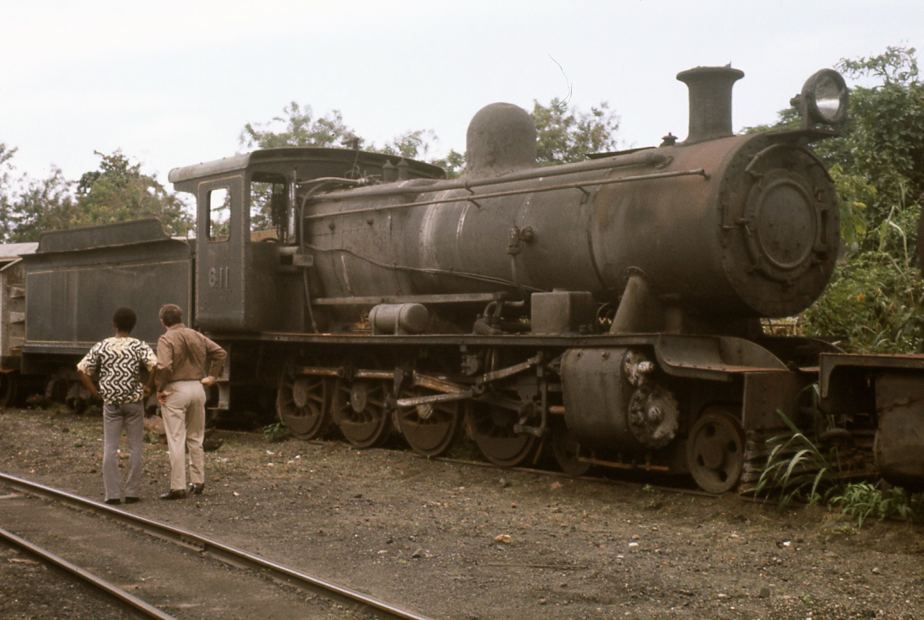 At Lagos depot compound, August 1974